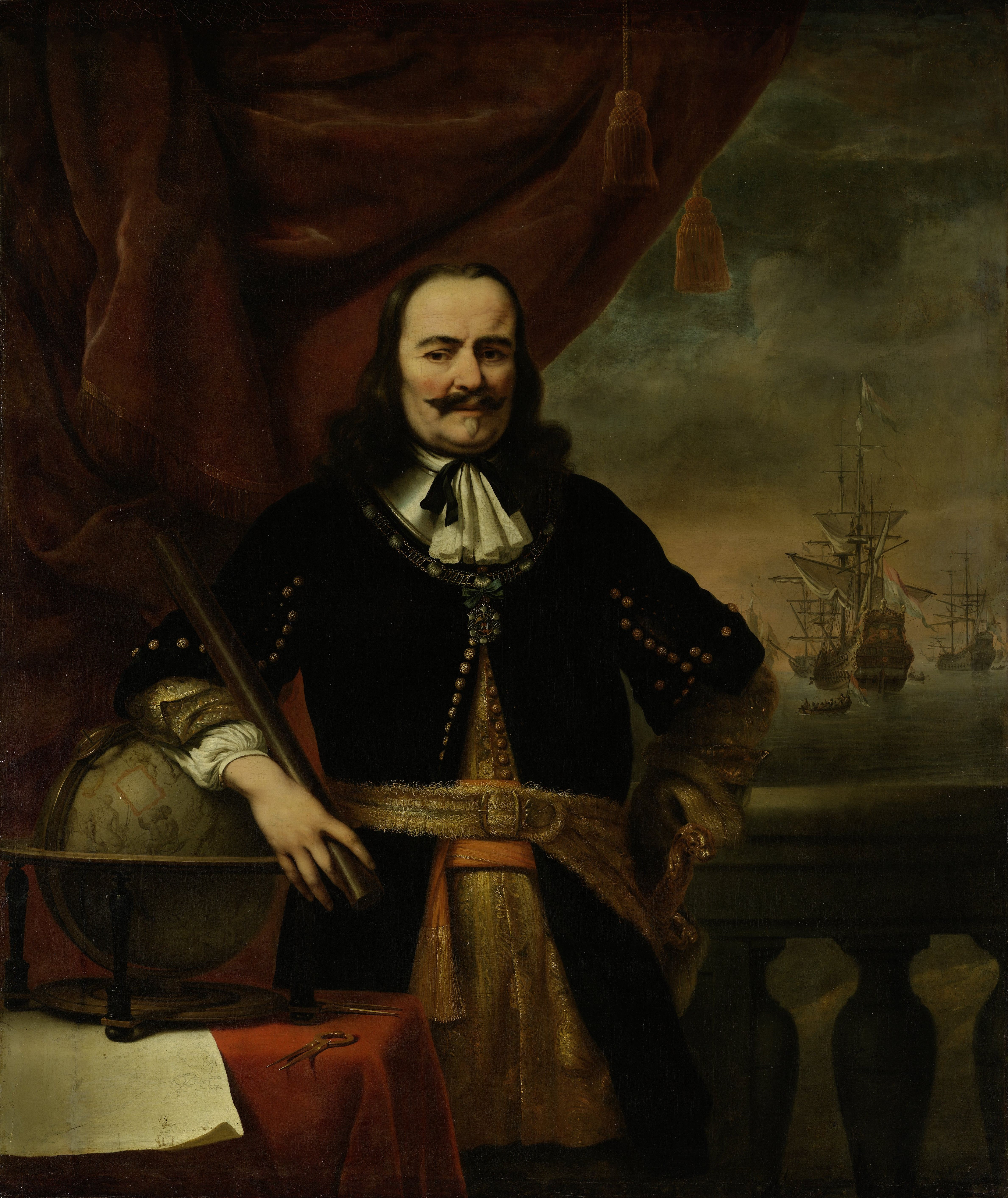 Portrait of Michiel Adriaensz. de Ruyter, at knee-length, standing in front of a red curtain and a balustrade. In the background a seascape with De Ruyter's flagship De Zeven Provinciën. De Ruyters rests his right arm on a globe, while holding a baton in his right hand. Around his neck he is wearing the Order of Saint Michael. On the table the globe is standing on lies a map showing the coastline of Holland and Flanders with in the middle the island of Walcheren, where De Ruyter was born. Part of a series of six identical portraits of Michiel Adriaensz. de Ruyter of which four have survived.